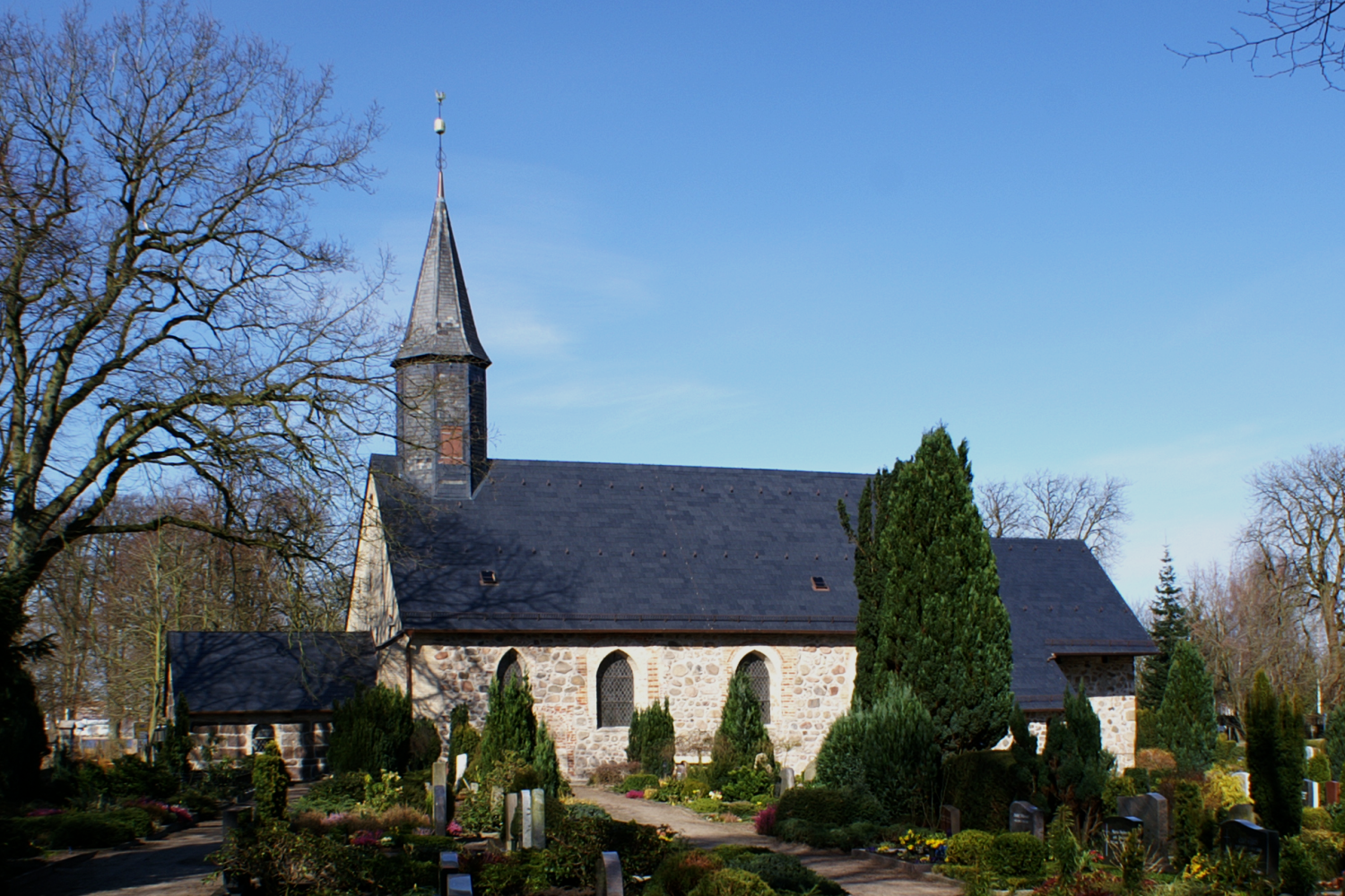 St. Andrew's Church in Haddeby near Schleswig.